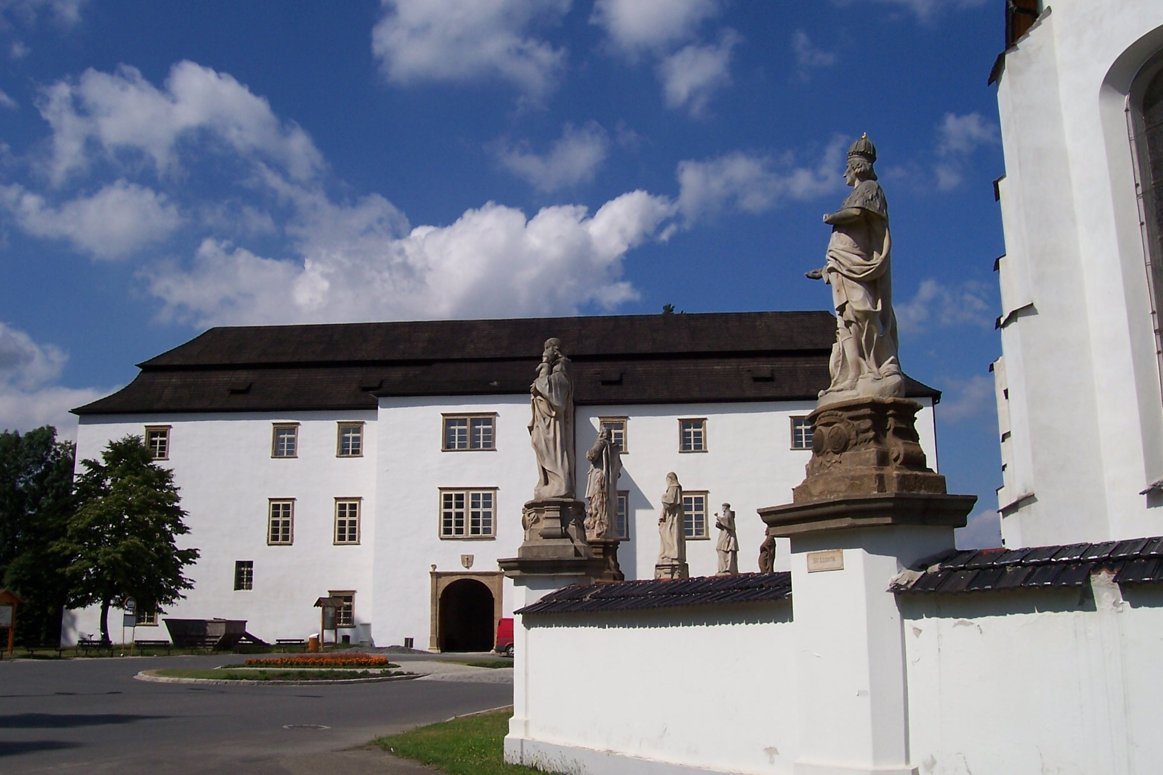 Hustopeče nad Bečvou in Přerov District, Czech Republic. Castle